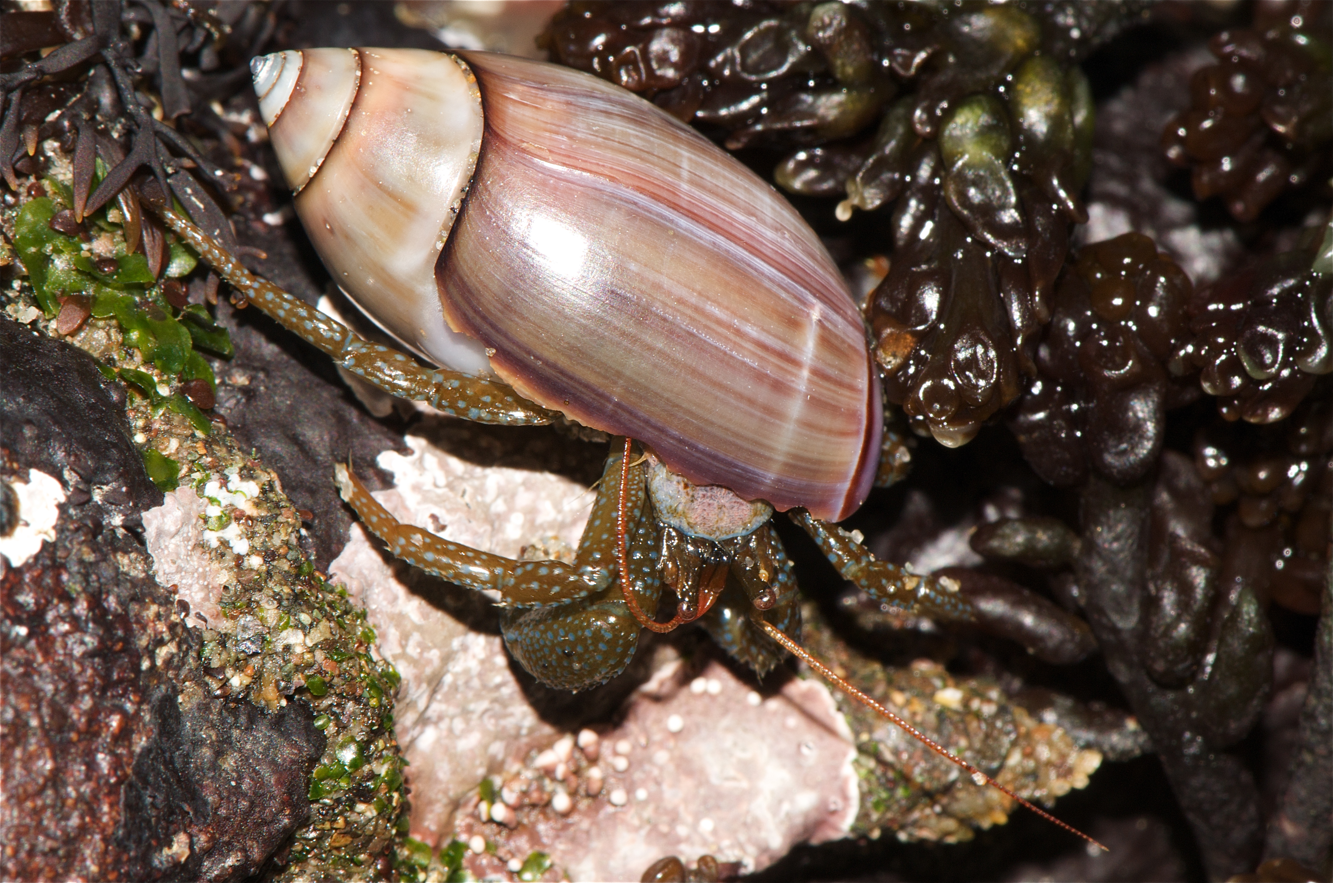 Pagurus in Olivella biplicata.